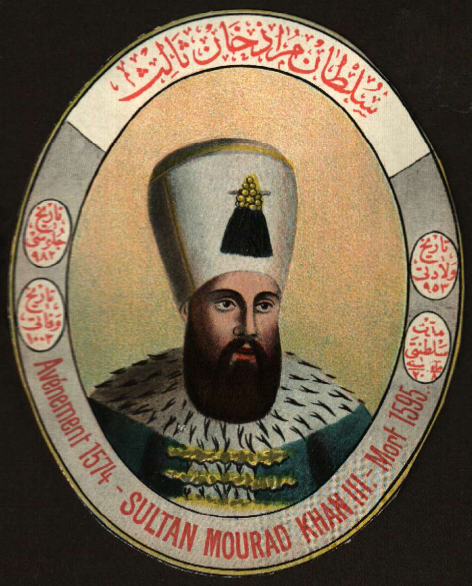 Murad III